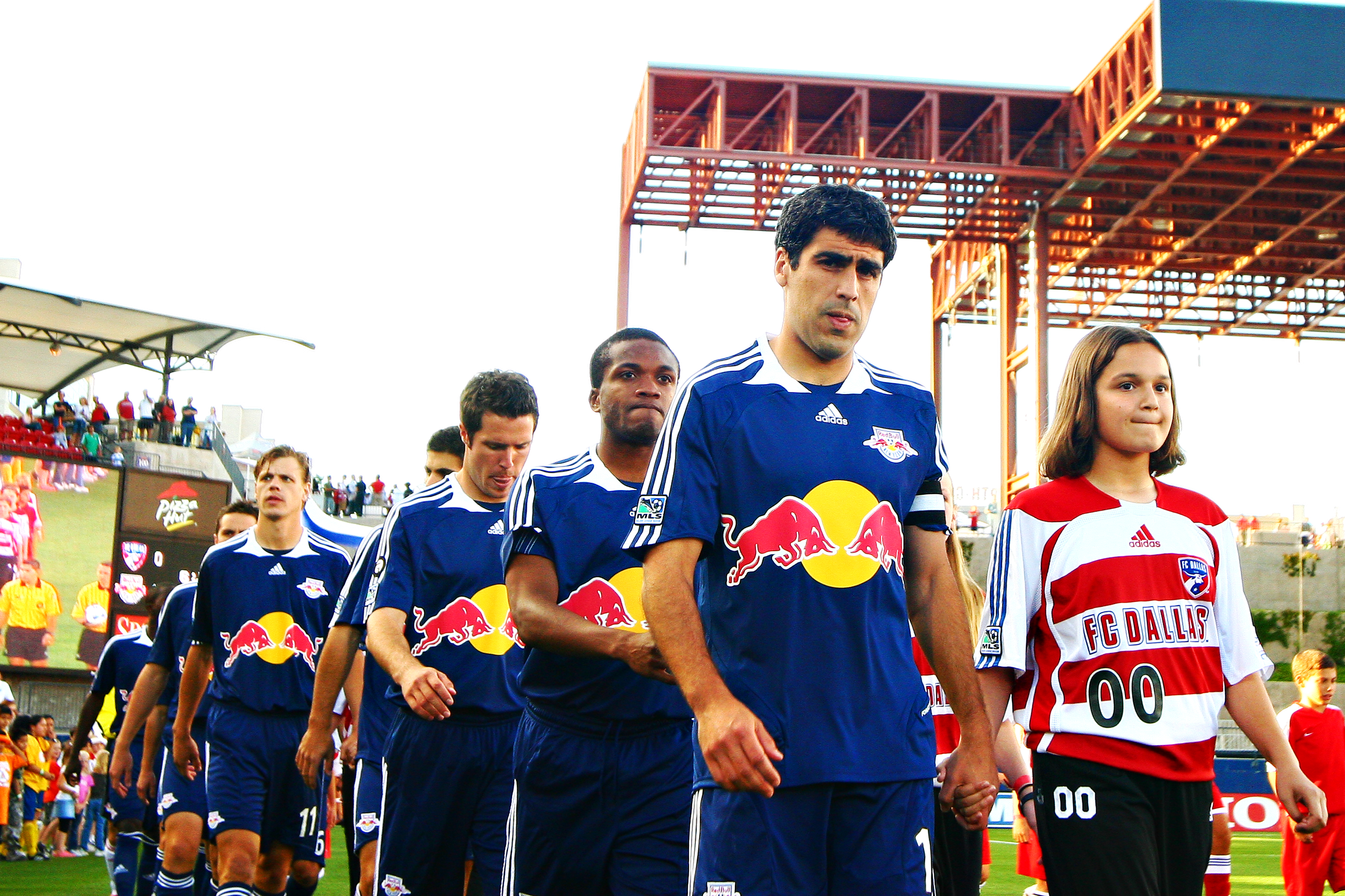 Claudio Reyna leading the New York Red Bulls onto the field.